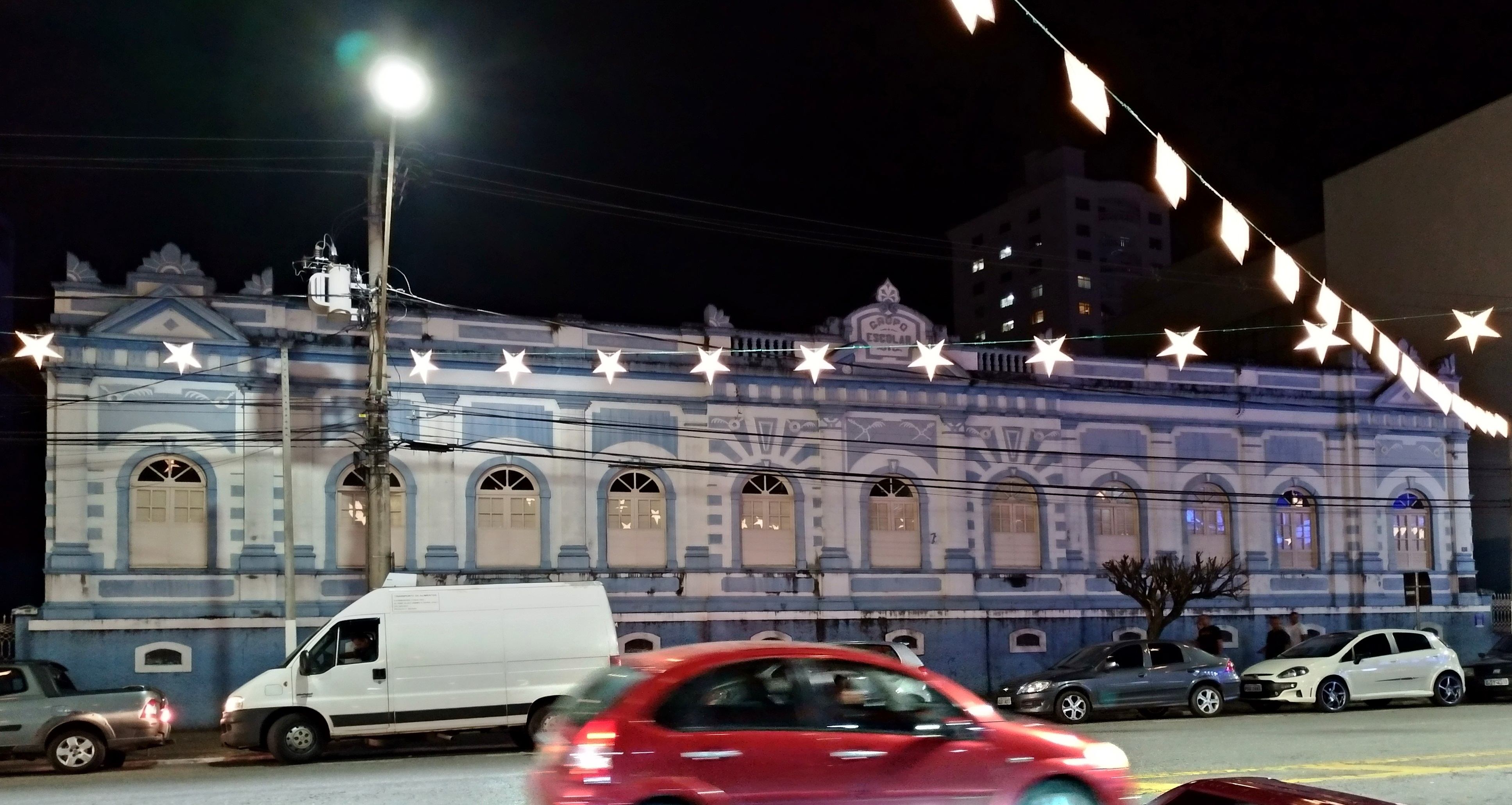 Nocturn view of the facade of the Monsenhor José Paulino estadual school, in Pouso Alegre, Minas Gerais, Brazil.